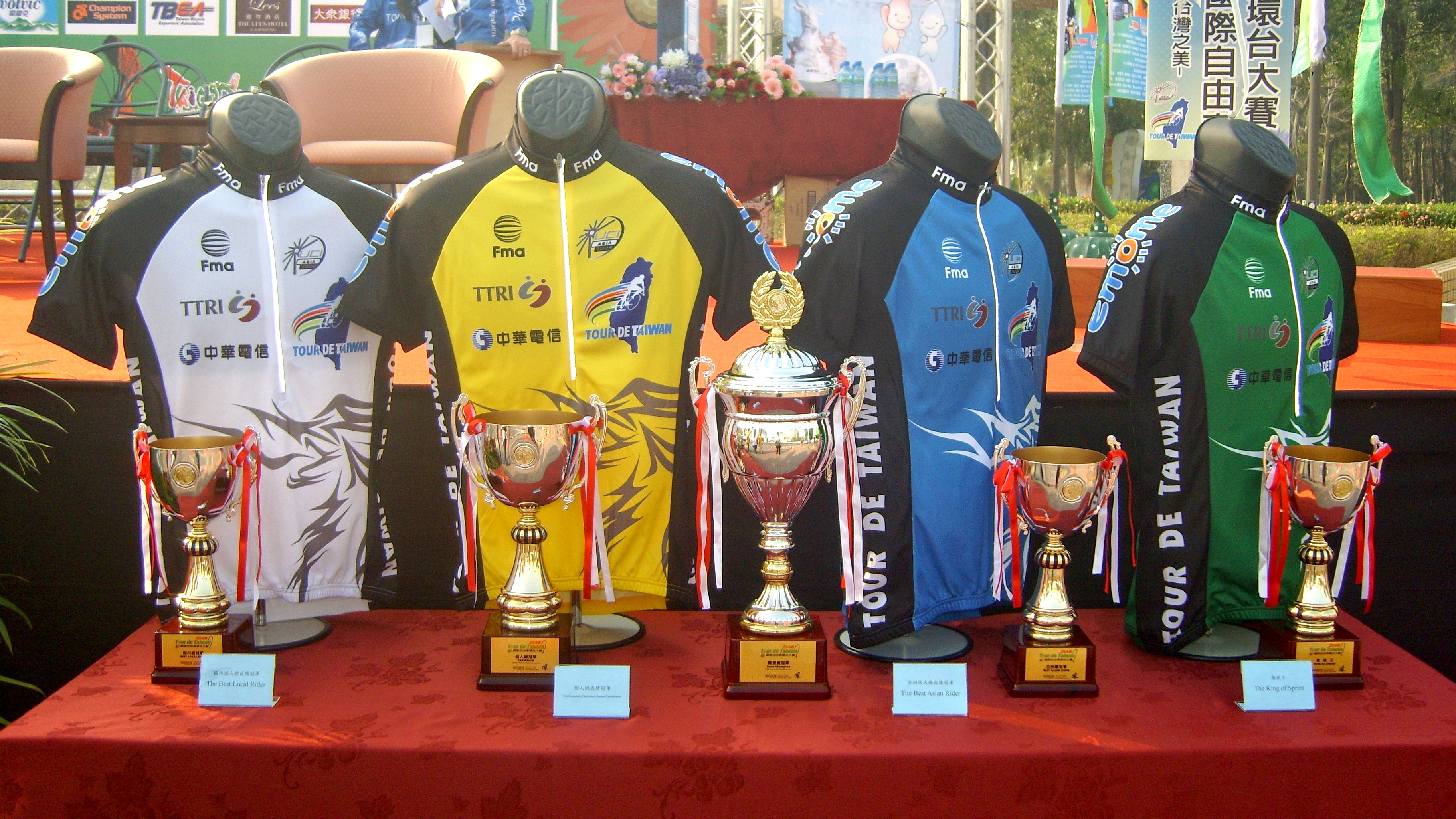 2008 Tour de Taiwan Stage 1: Leader Jerseys and Award Cups.